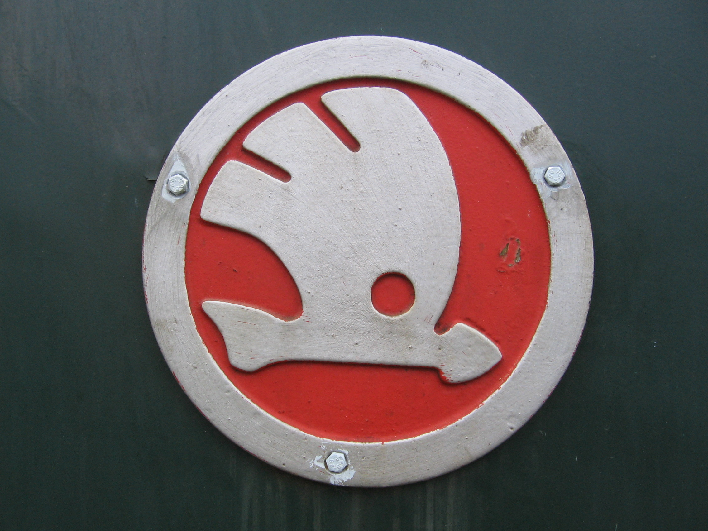 141.012 in depot Prague - Vršovice - Škoda sign